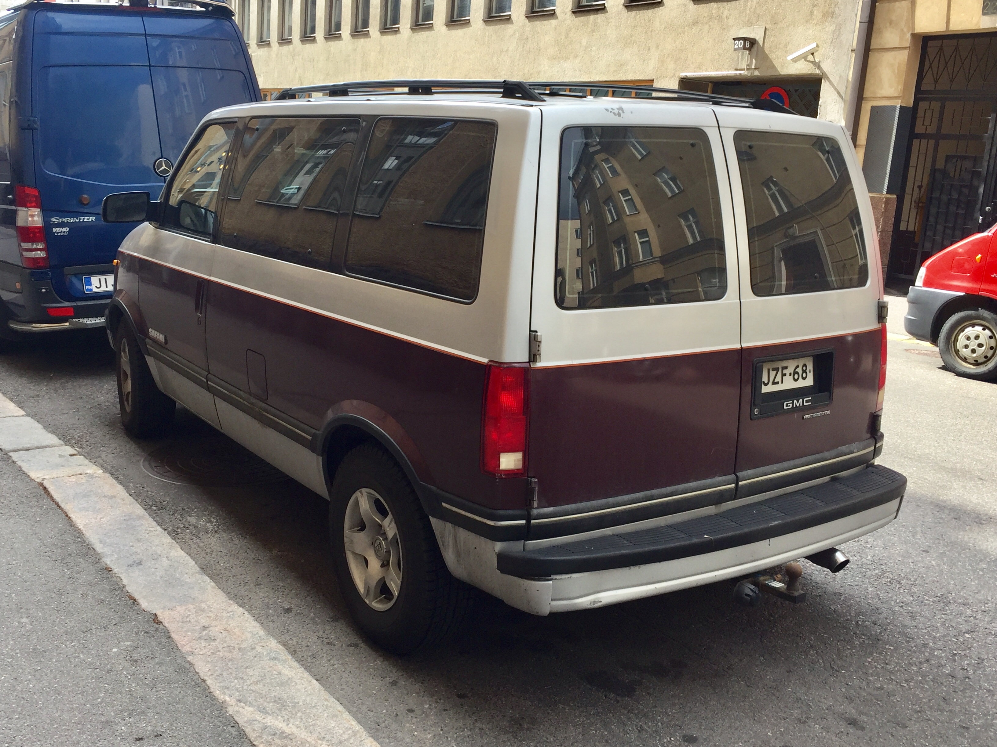 A 1990 GMC Safari. Taken in Helsinki, Finland